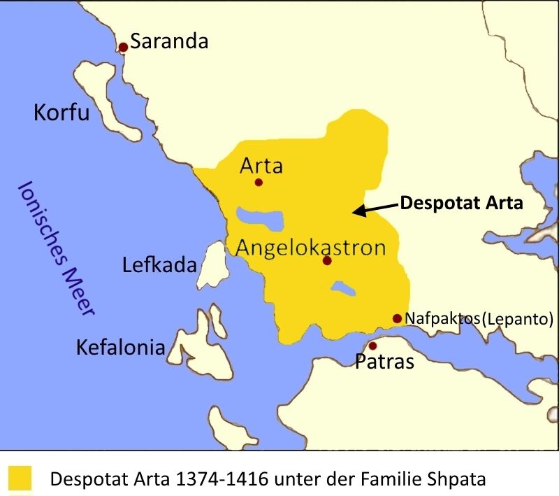 Despotate Arta under family Shpata from 1374 to 1416